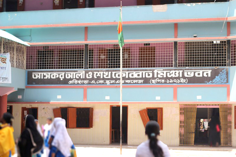 A.K. high school main campus